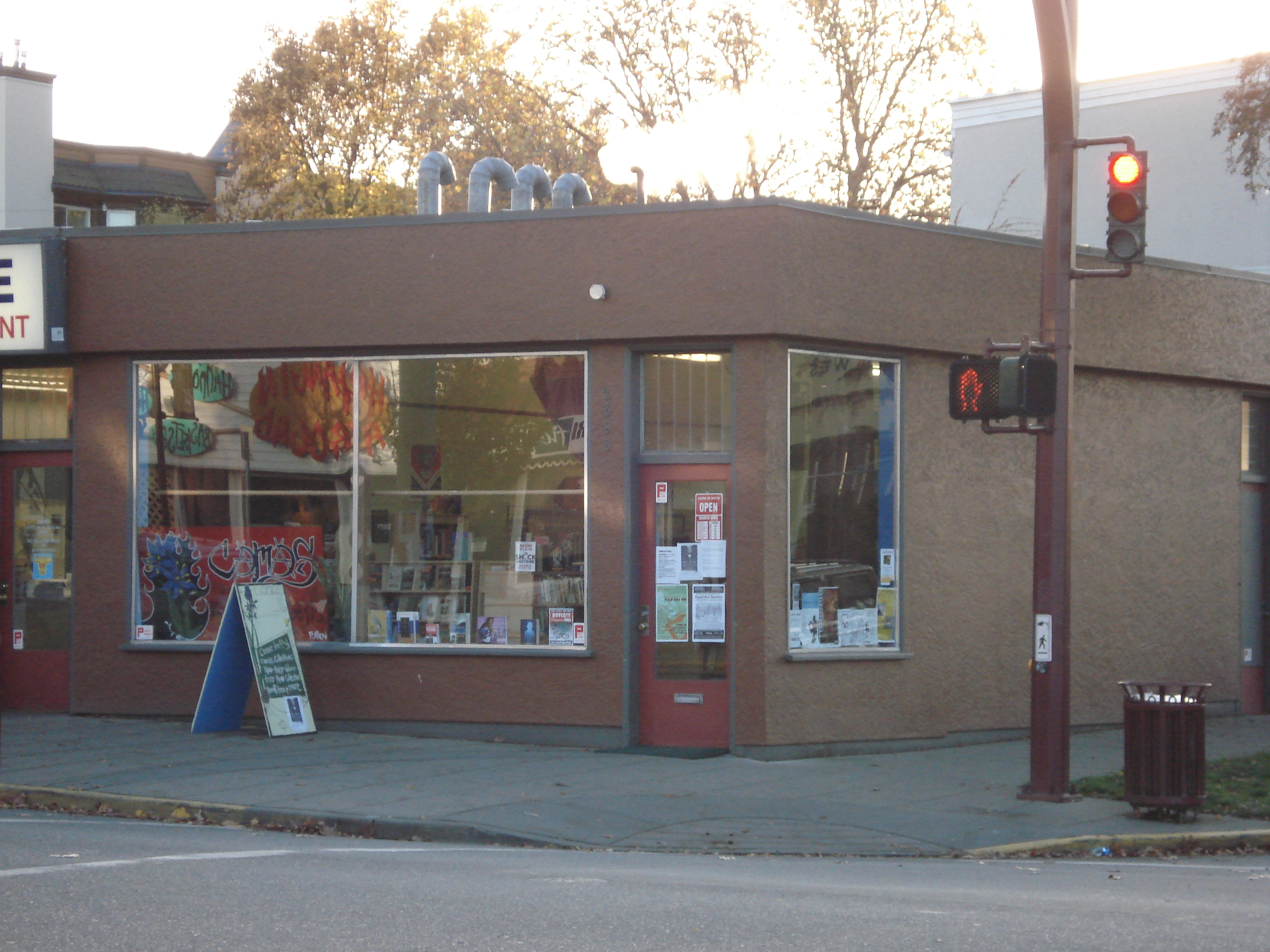 Camas Bookstore and Infoshop personal photo